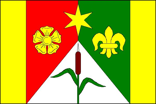 Municipal flag of Třtěnice village, Jičín District, Czech Republic.